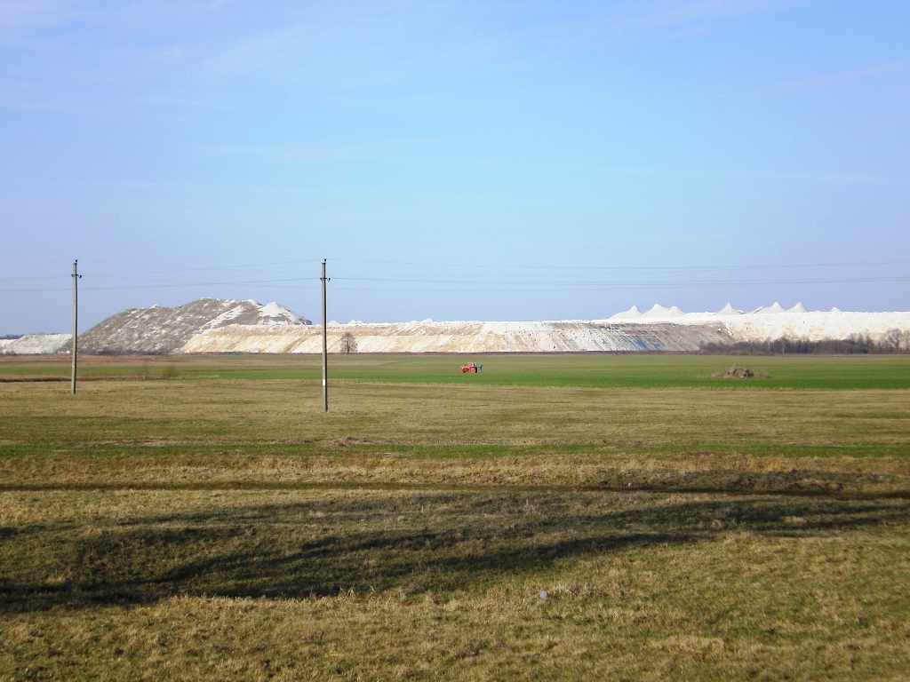 "Kedainiai Alps". Mountains of phosphogypsum